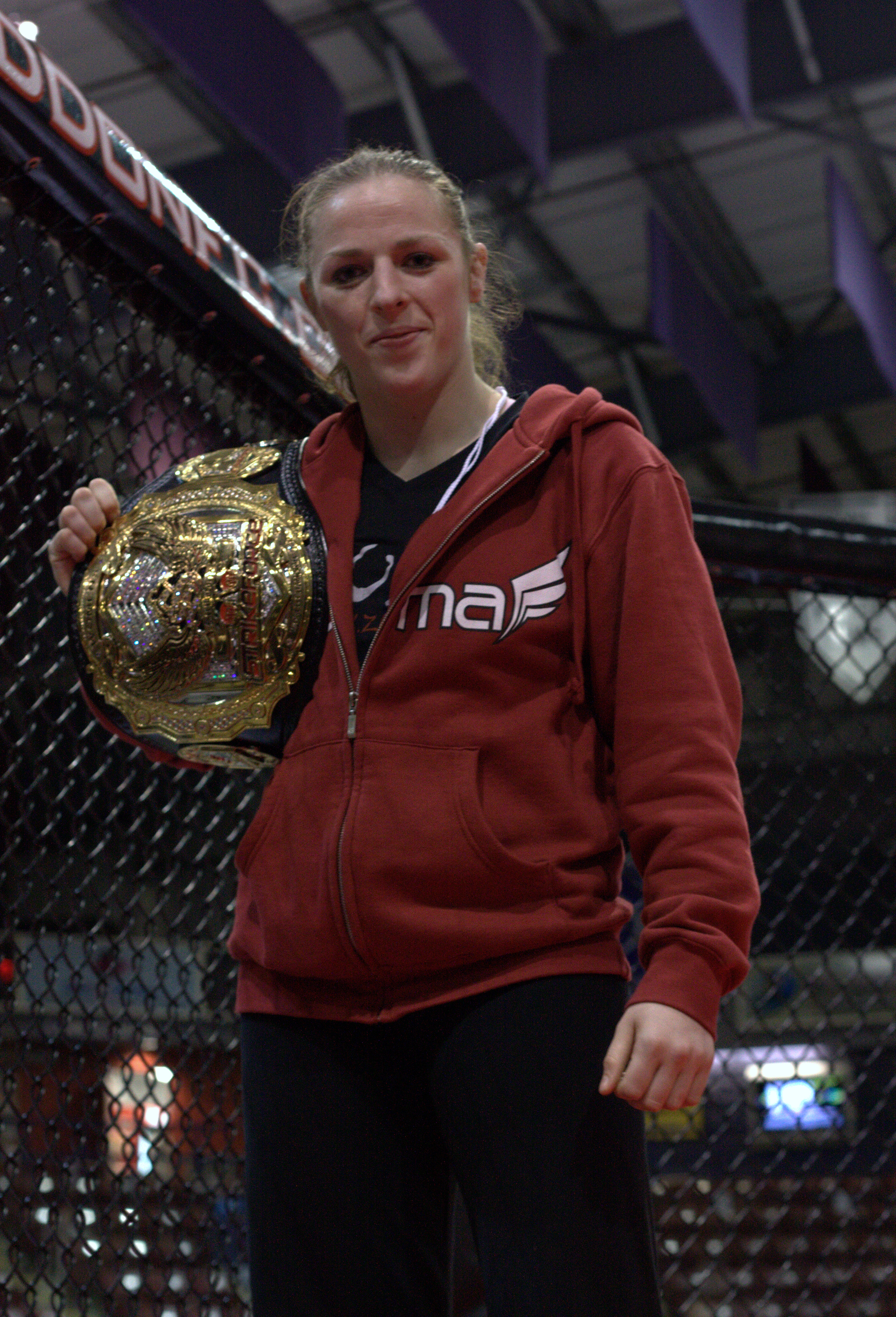 Sarah Kaufman with the Strikeforce women’s welterweight belt at AFC II Aftershock